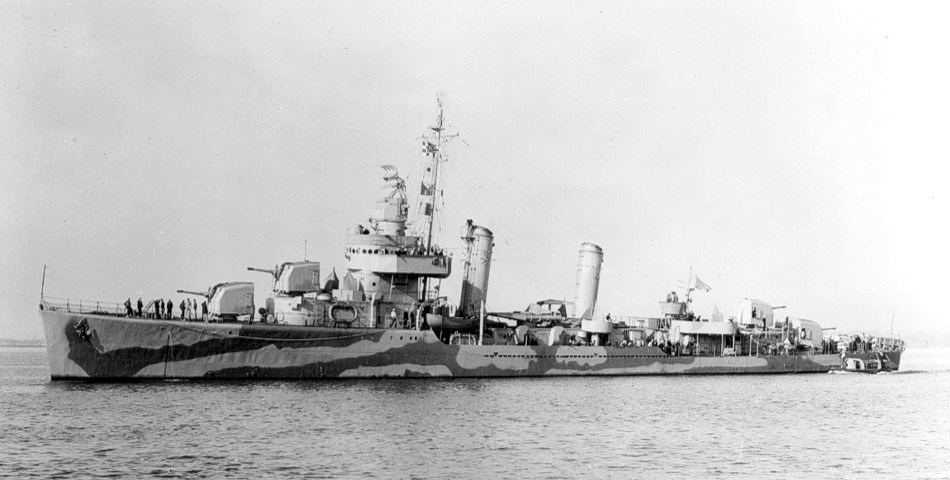 The U.S. Navy destroyer USS Fitch (DD-462) underway. She was buit at the Boston Navy Yard, Massachusetts (USA), and commissioned on 3 February 1942.